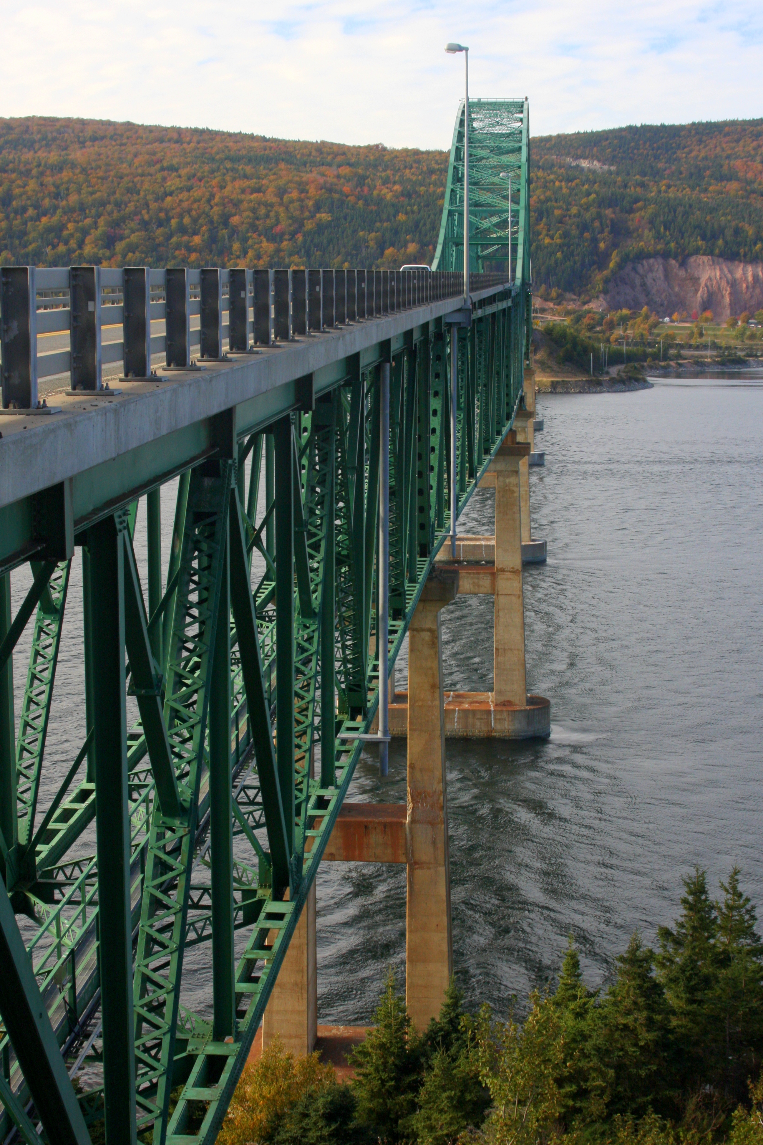 A view of the approach spans and main spans of the Great Bras d'Or (Seal Island) Bridge between Cape Breton Island and Bouldarie Island in Nova Scotia, Canada.